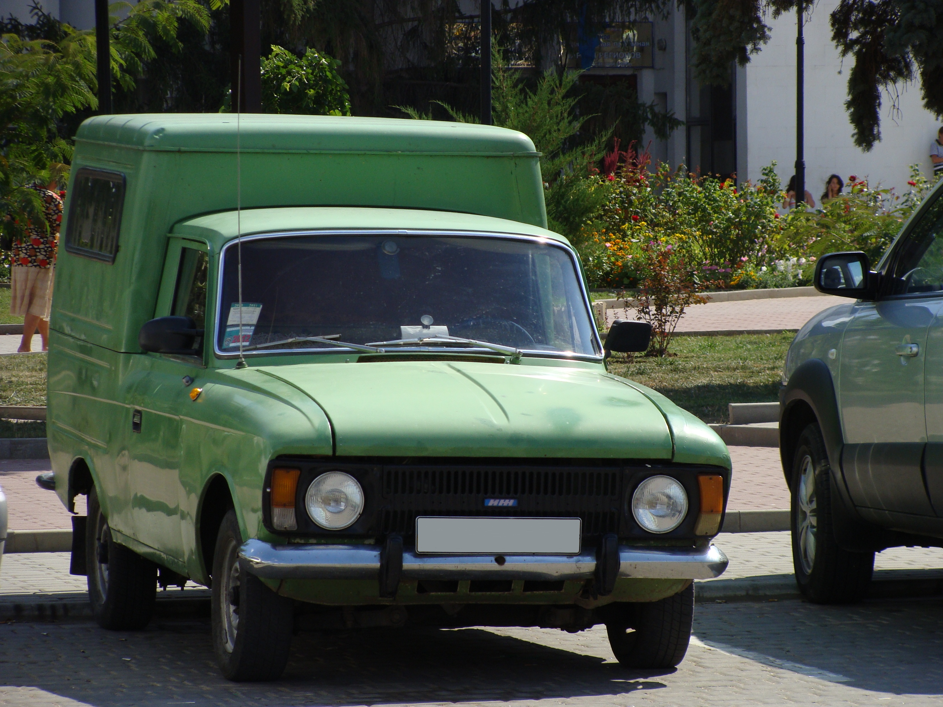 IZh-2715-01 van rebuilt with side windows (this is not factory-made cargo-passenger IZh-27156, which has bigger windows).